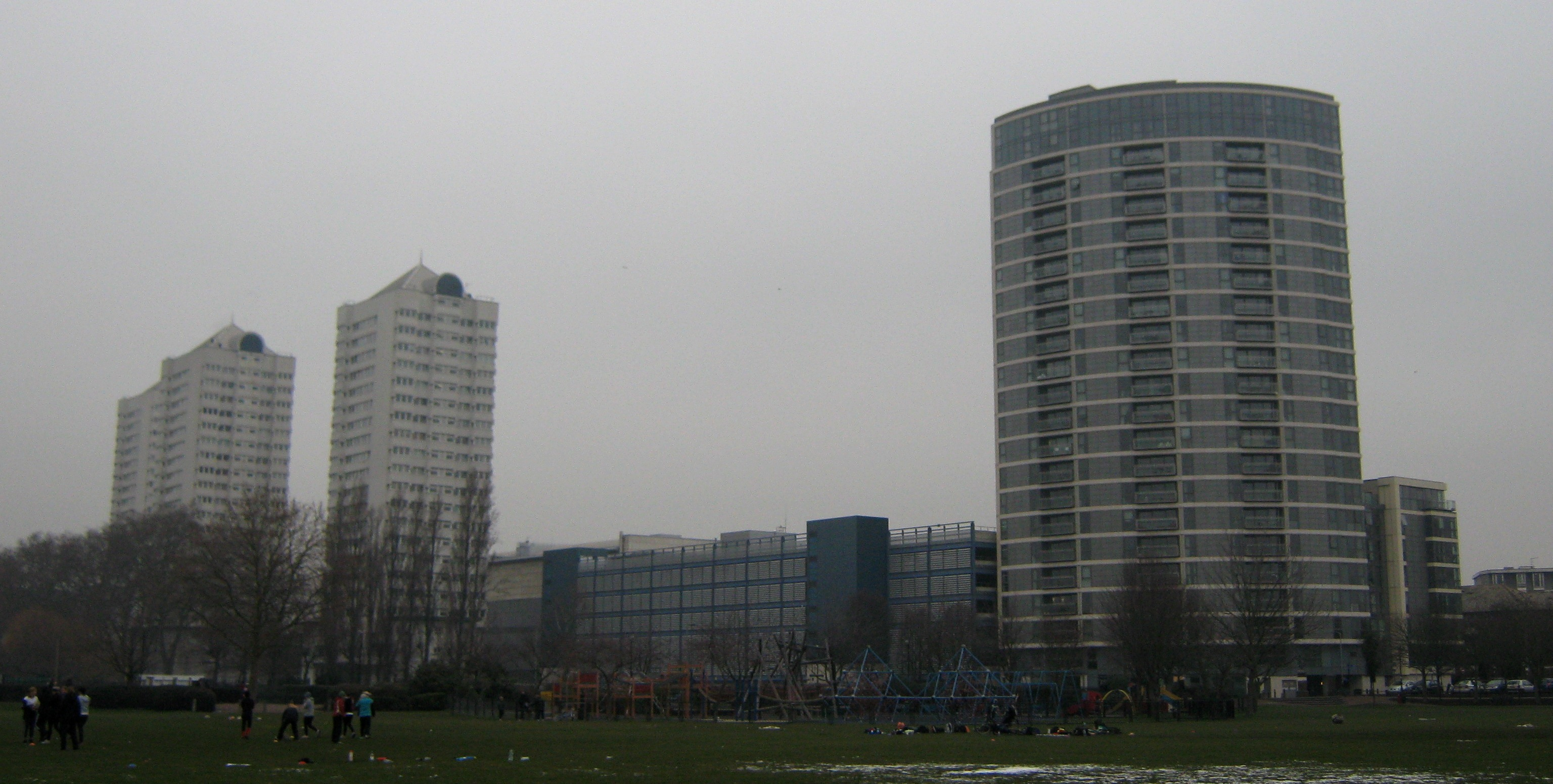 Exterior view of the former Arndale Centre showing the low rise shopping centre as well as various high rise towers on the roof